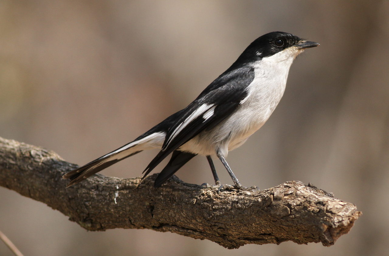 Male Fiscal Flycatcher, Sigelus silens at Suikerbosrand Nature Reserve, Gauteng, South Africa